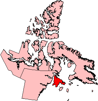 Map of the Nunavut Territory, Canada, highlight on Southampton Island.